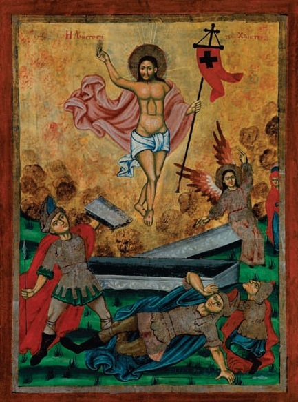 Resurrection Icon by Zisis Yoanniou Samariniotis